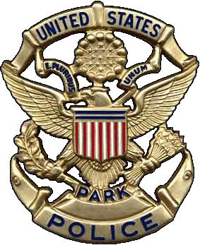 Badge of the United States Park Police.